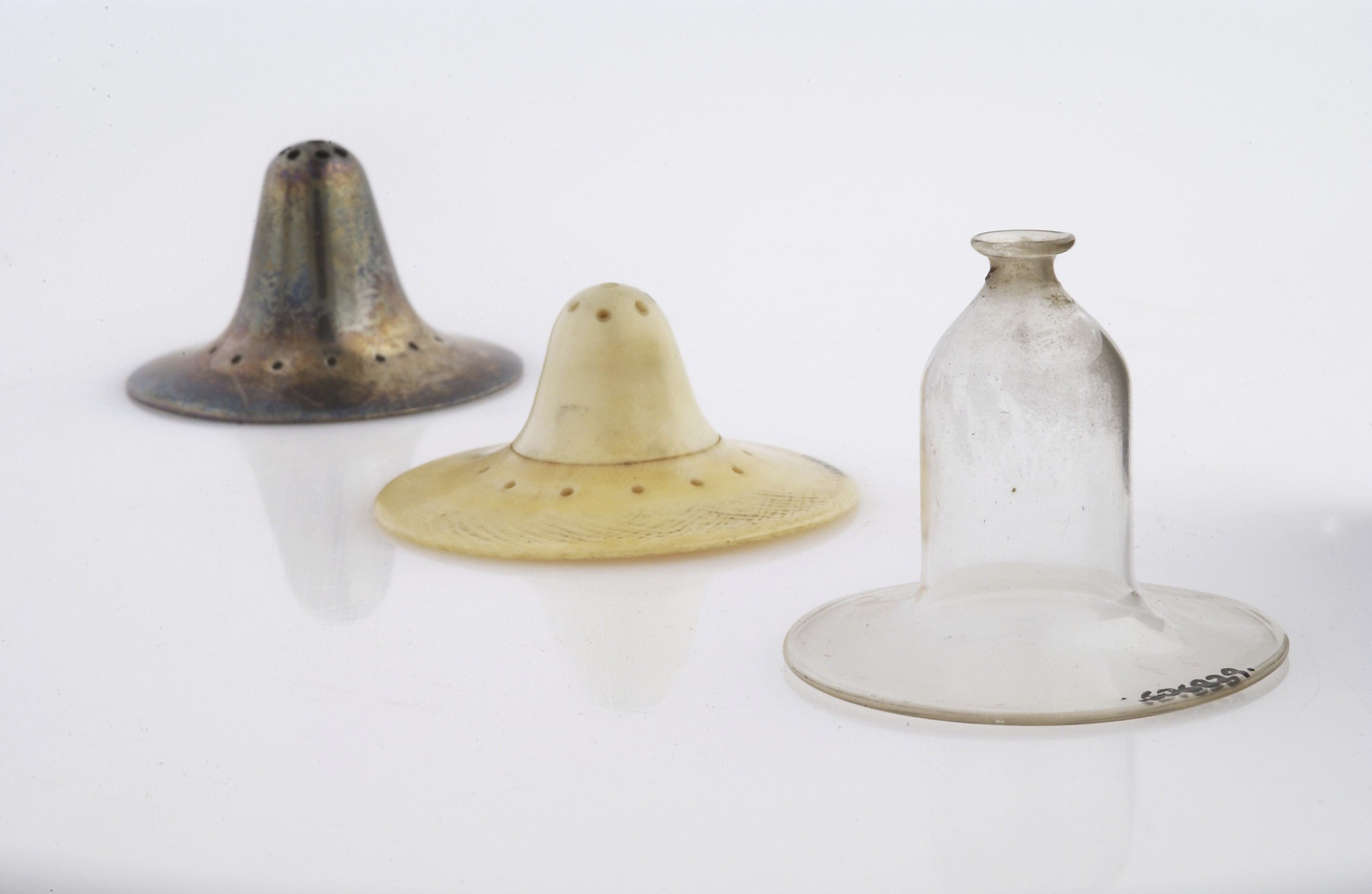 Sterling silver, ivory and glass nipple-shield. The silver one is hallmarked with the maker'd initials and George III's head and has been dated to 1786-1821 Wellcome Images Keywords: Baby; Motherhood; Protection; Feeding; Breast Feeding